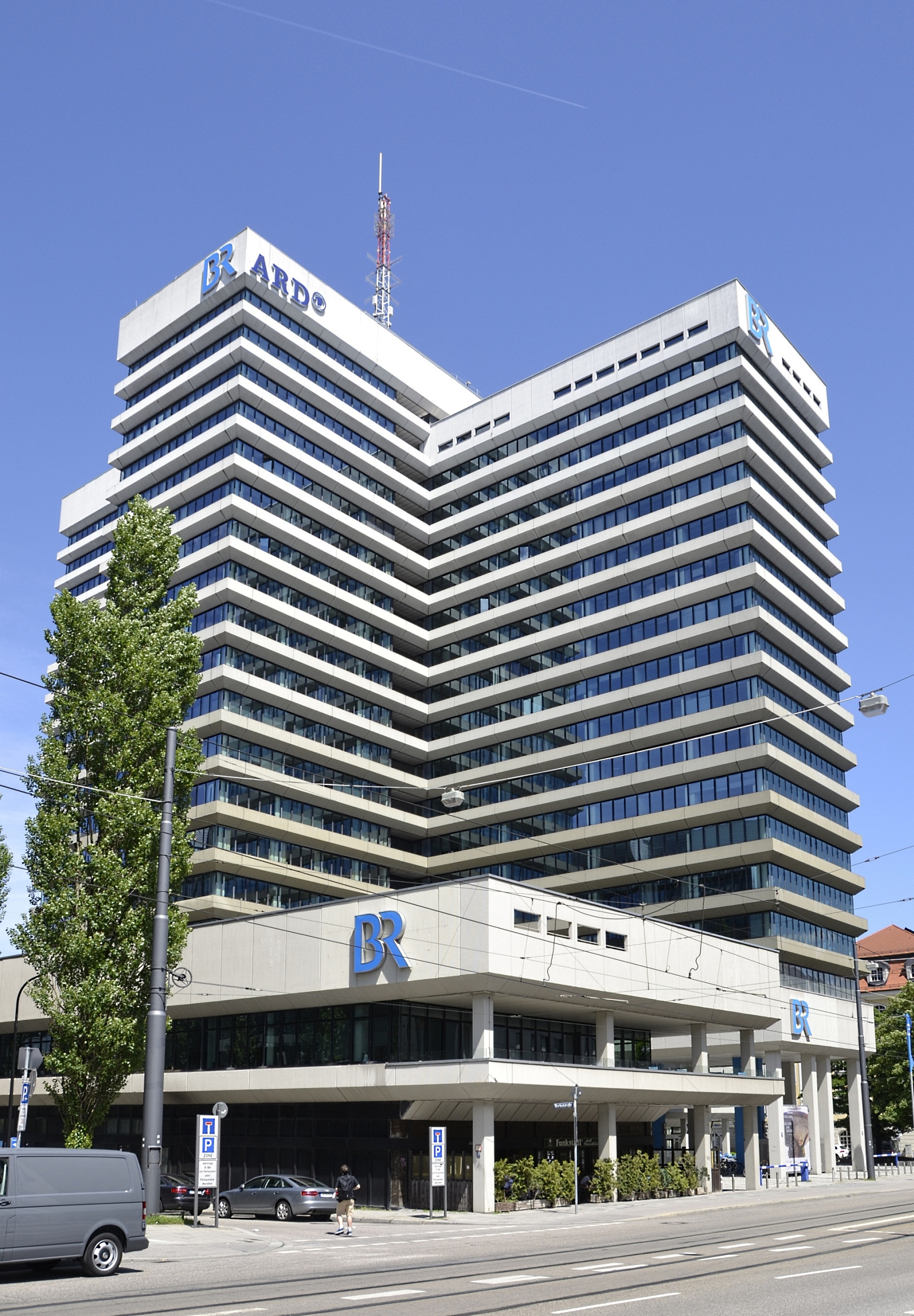 The main headquater of the BR, a television network from Bavaria, Germany; Aktennummer D-1-62-000-6027.